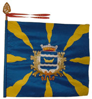 The Colour of Uusimaa Brigade